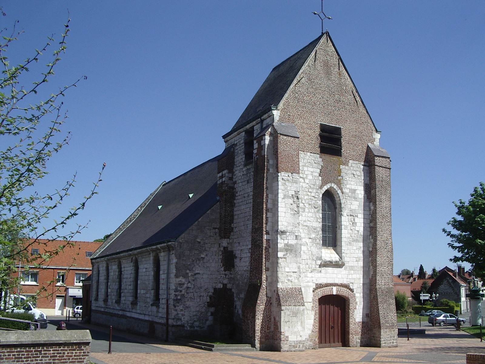 Churche of Faches-Thumesnil